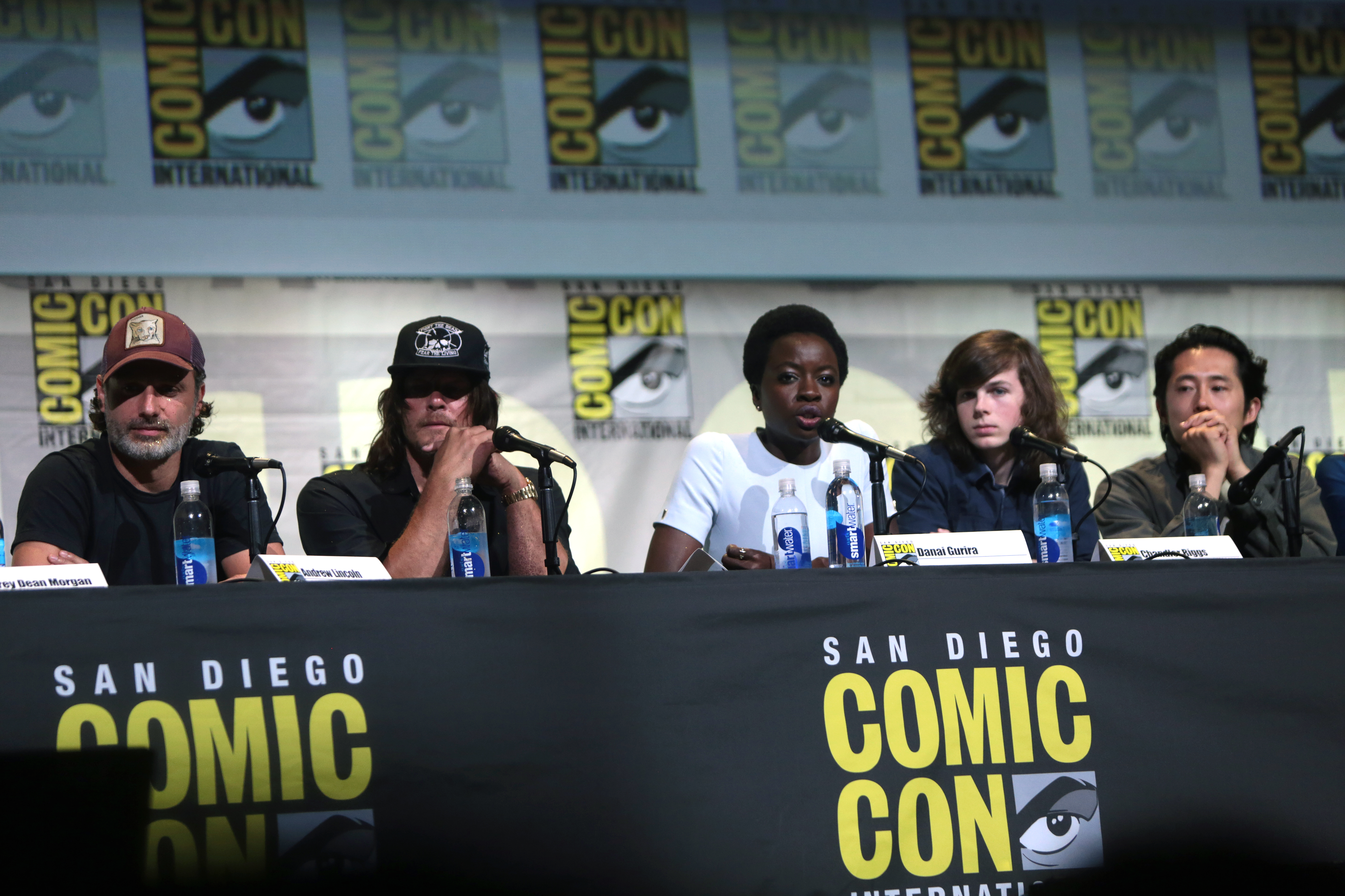 Andrew Lincoln, Norman Reedus, Danai Gurira, Chandler Riggs and Steven Yeun speaking at the 2016 San Diego Comic Con International, for "The Walking Dead", at the San Diego Convention Center in San Diego, California.